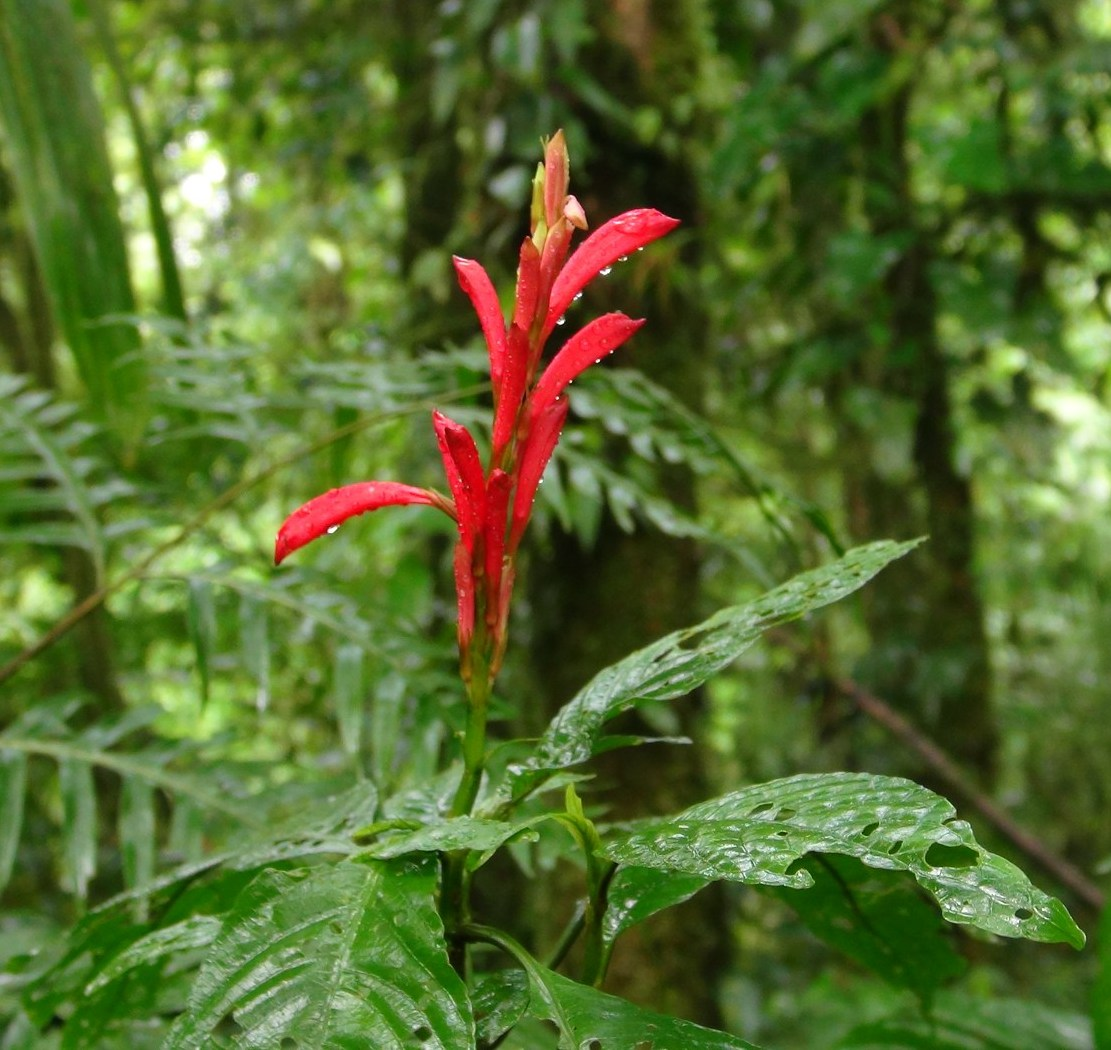 Razisea spicata. Costa Rica, Monteverde Cloud Forest Reserve, Selvatura (hanging bridges and) walkway, ca 1500 m.